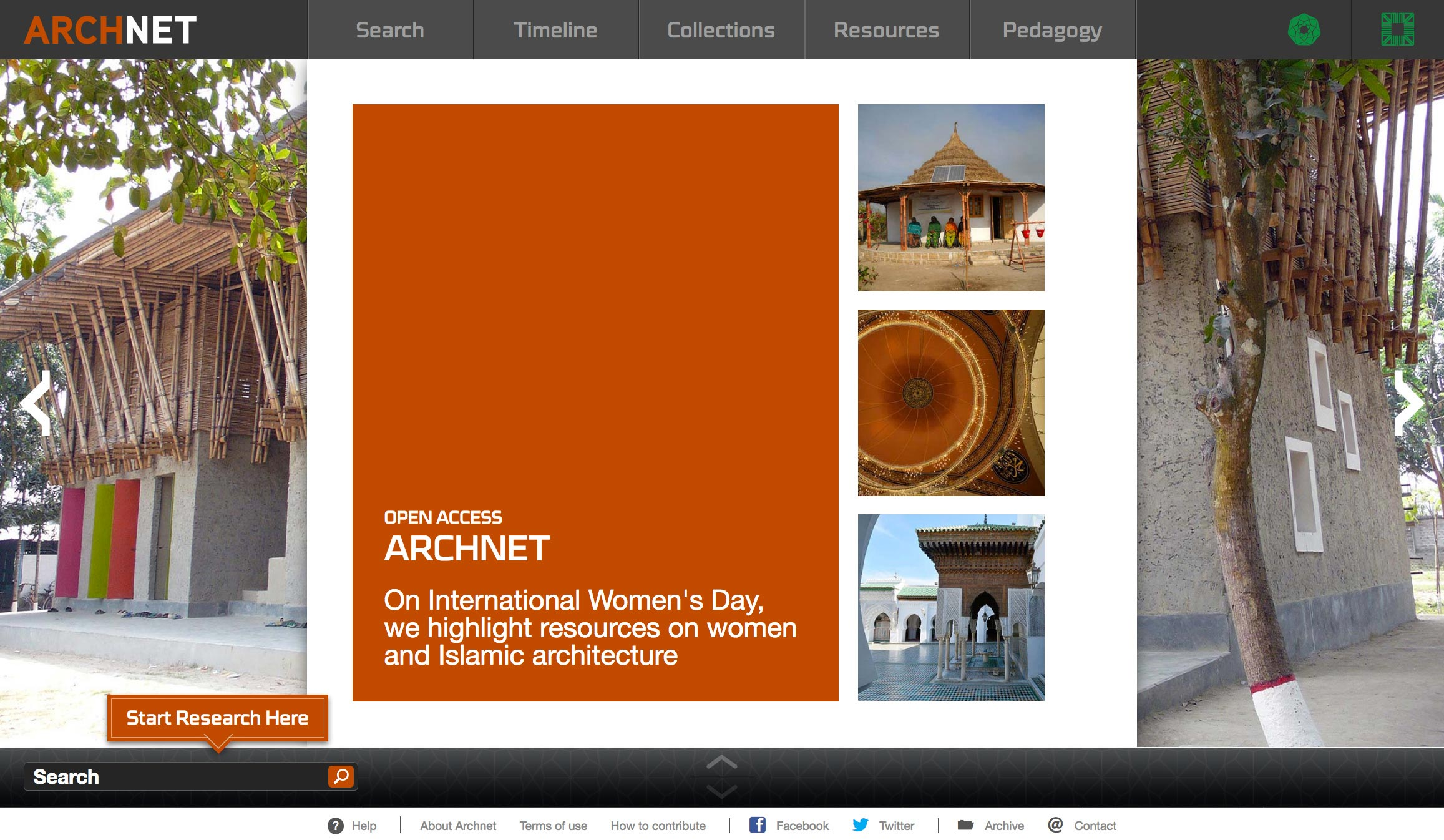 Screenshot of the Archnet Homepage on 3-8-2018